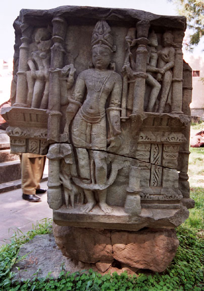 These sculptures were part of Bhima Devi Temple at Kalka, Haryana. Such beautiful and important part of our heritage again has no one to take care. A famous heritage conservation society remembers this palce just once a year and organises a so called conservation programme and heritage walk. Lot of media attention is arranged too. Sheer waste of time and money!